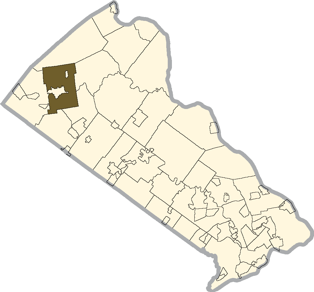 Richland Township shaded on the map of Bucks county, PA.